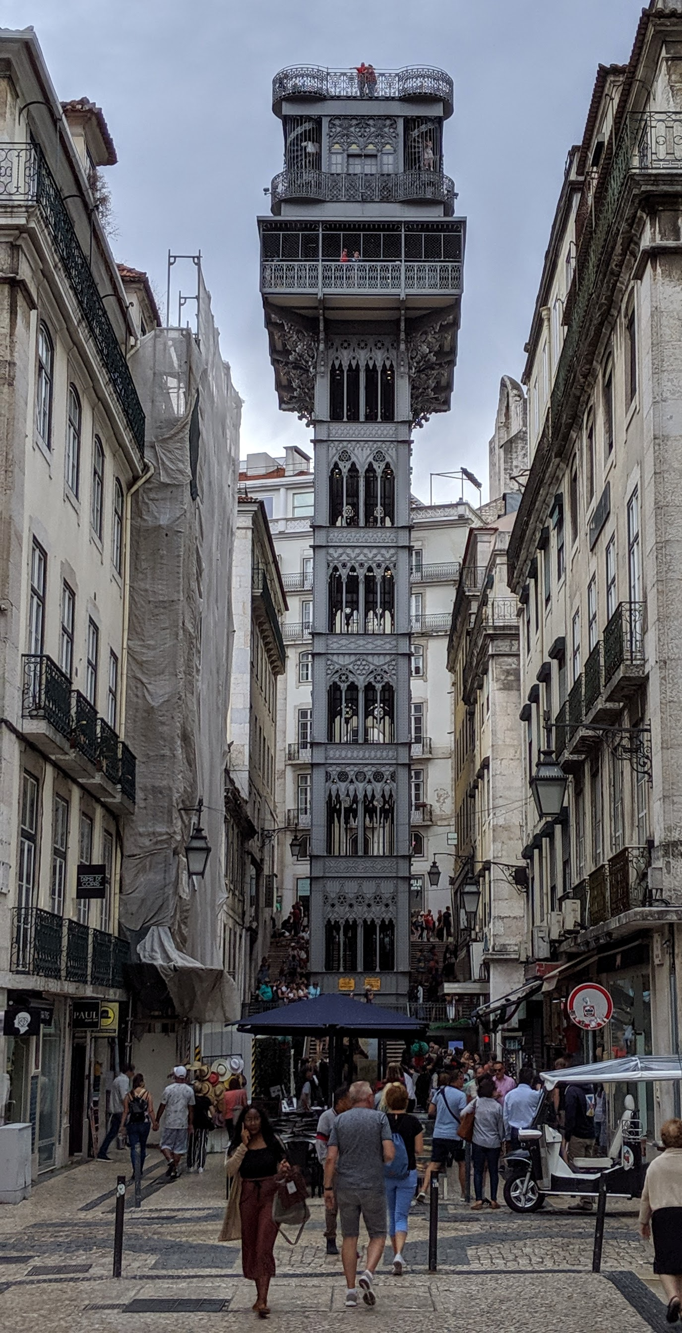 View of Elevador de Santa Justa from Rua de Santa Justa, Lisbon